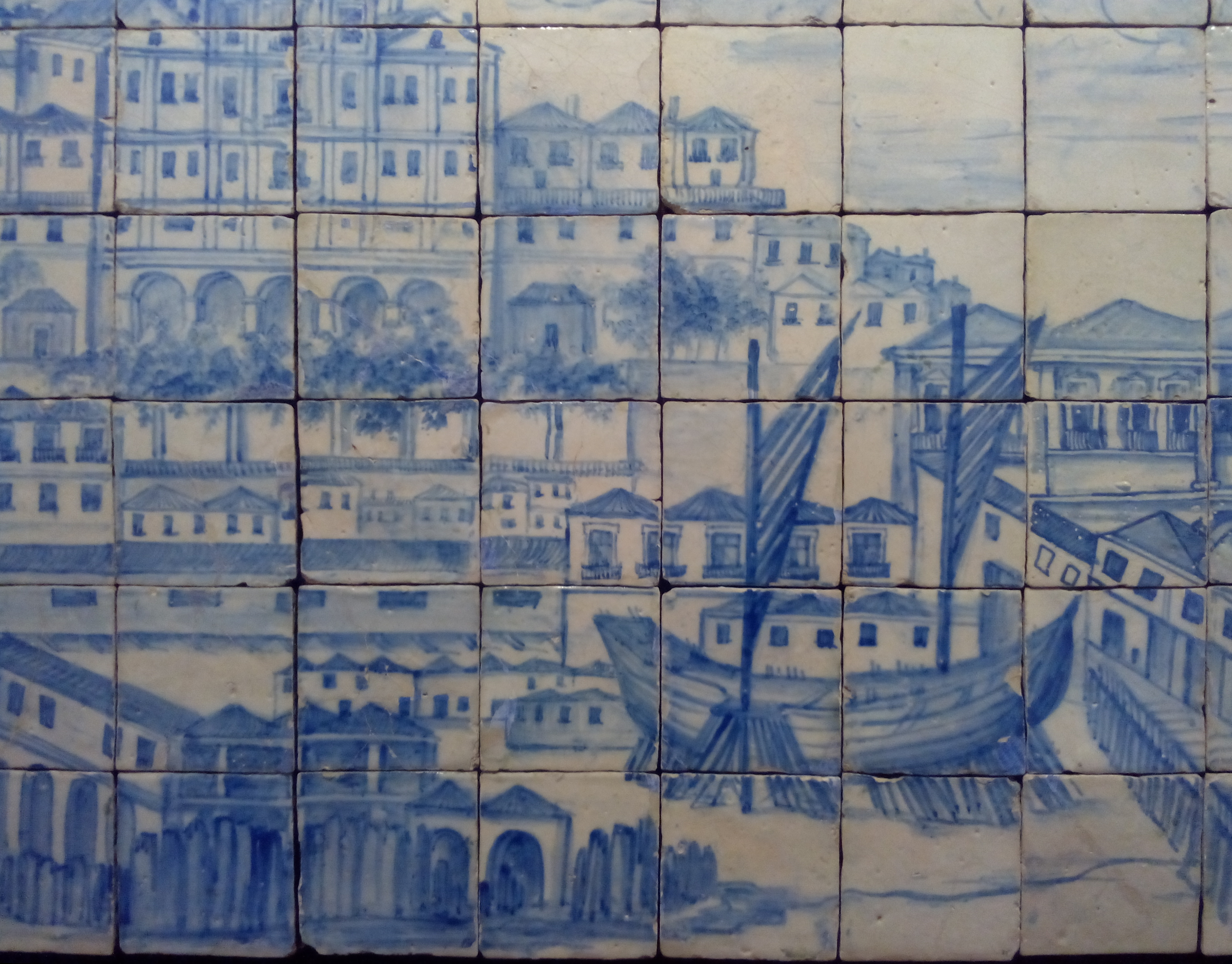 Depiction of the Royal Docks (Ribeira das Naus), in Lisbon, in an early 18th-century tile panel depicting a view of city. Currently in the National Tile Museum (Museu Nacional do Azulejo), in Lisbon, Portugal.